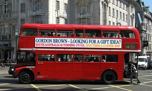 Bus advertisement (computer generated) for Petition to British Prime Minister